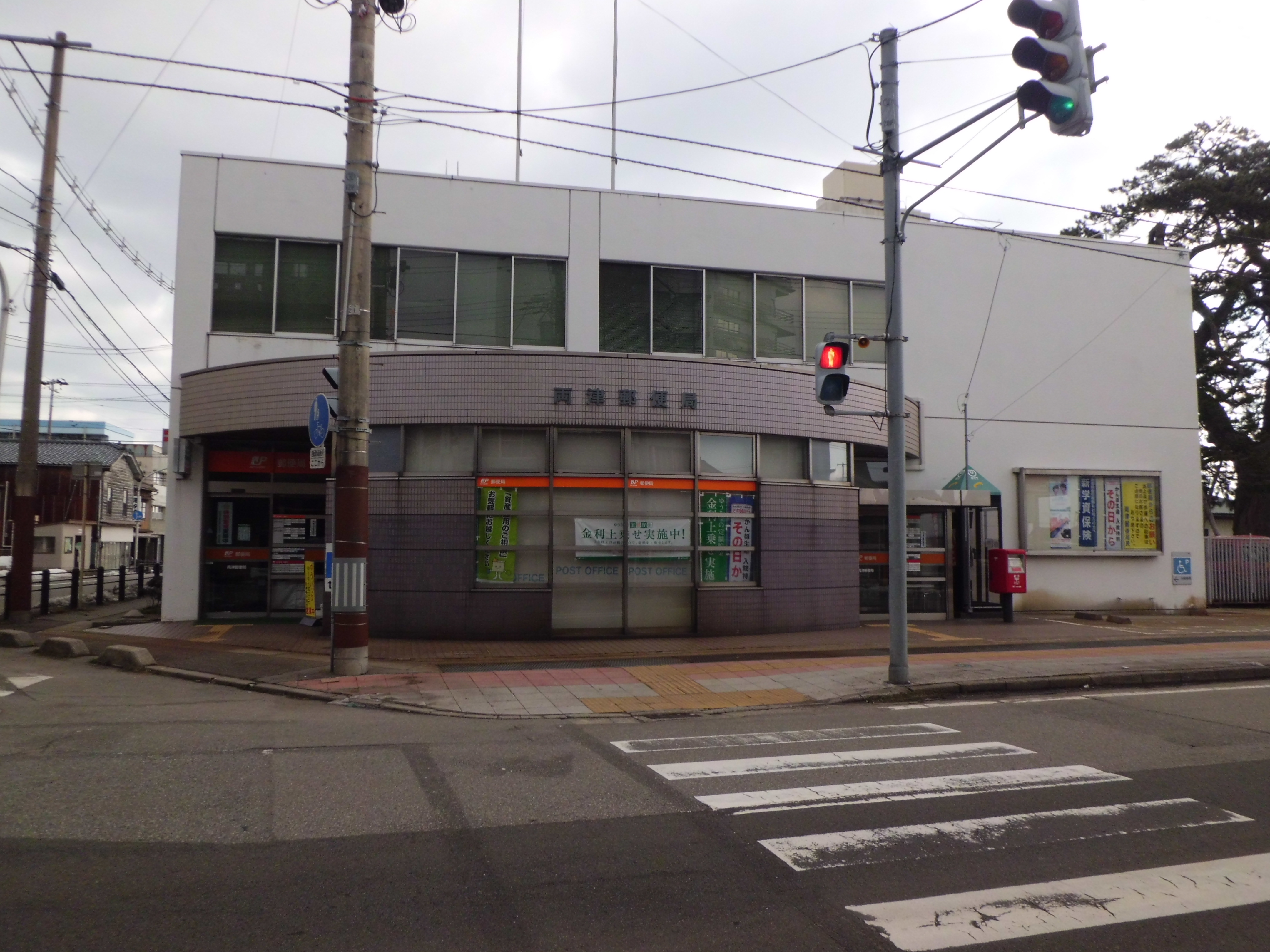 Ryotsu Post Office